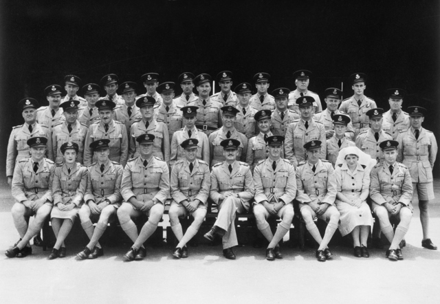 Parafield, SA. Group portrait of the commanding officer and officers of RAAF No. 1 Elementary Flying Training School (EFTS). Left to right: back row: Flying Officer (FO) G. O. Weston, FO W. S. Shephard, Pilot Officer (PO) A. A. Conigrave, PO R. N. Carmichael, PO D. A. Walter, PO H. M. Day, FO S. M. O'Callaghan, PO J. H. Curtis; third row: FO D. H. Sharley, FO I. H. McDonald, FO J. R. Lynch, PO T. K. Davies, FO L. R. Watson, PO J. W. Cornish, PO M. J. Pearce, PO S. F. B. Davies, PO J. B. Gall; second row: Pilot A. T. Barton, PO A. D. Mackrell, Flight Lieutenant (FLT LT) R. G Johnston, FO J. W. B. Hall, FLT LT N. Oldfield, FLT LT J. P. C. Butler, FLT LT N. F. Abbott, PO W. J. Bennett, PO C. F. Davies, PO H. A. Tremethick, PO R. K. Dunn; front row: FO A. J. A. O'Donnell, Air Staff Officer P. J. Methven, FLT LT F. P. Roberts, FLT LT A. C. Gibson, Squadron Leader W. S. Maddocks, S/LDR W. D. Wedgwood, FLT LT B. J. Clifton, FLT LT. H. P. Davis, Sister J. C. V. Law, FO M. W. Nairn. (Photographer Frank Boase Studio, Hutt Street, Adelaide. Original print held in AWM Archive Store). (Donor: L. Watson).